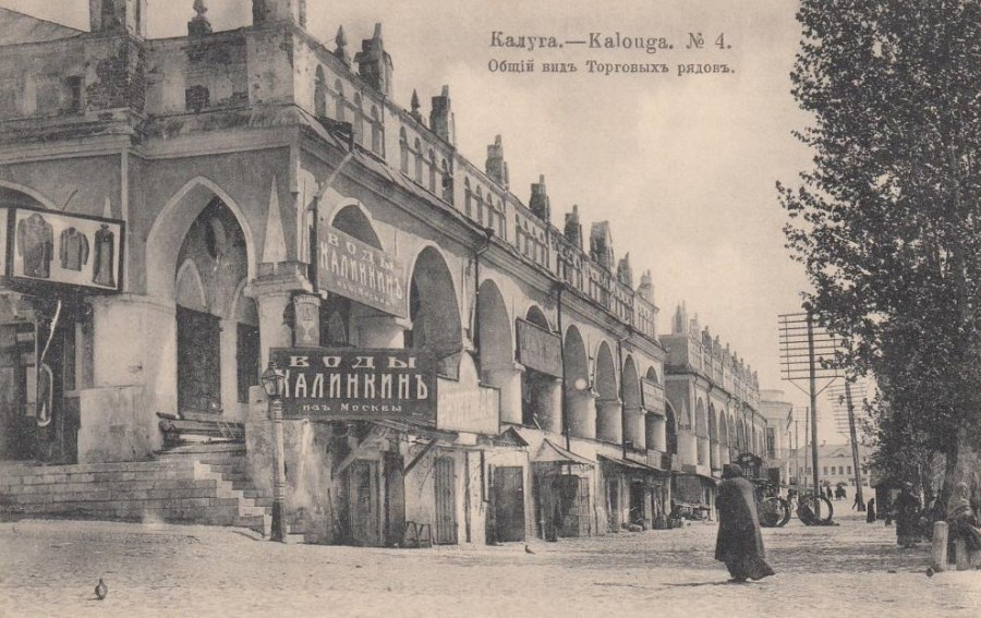 Postcard. Kaluga. General view of trade rows